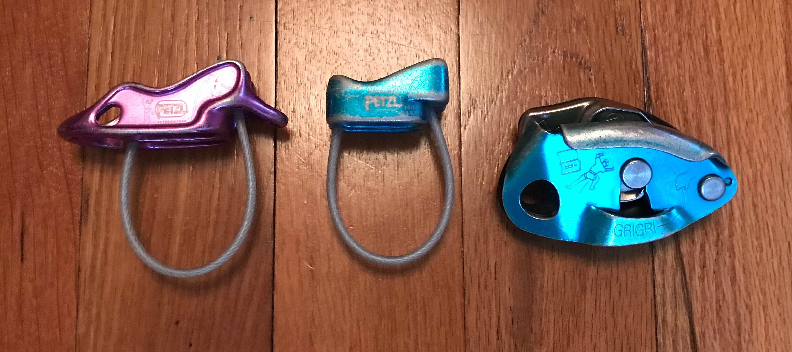 Petzl